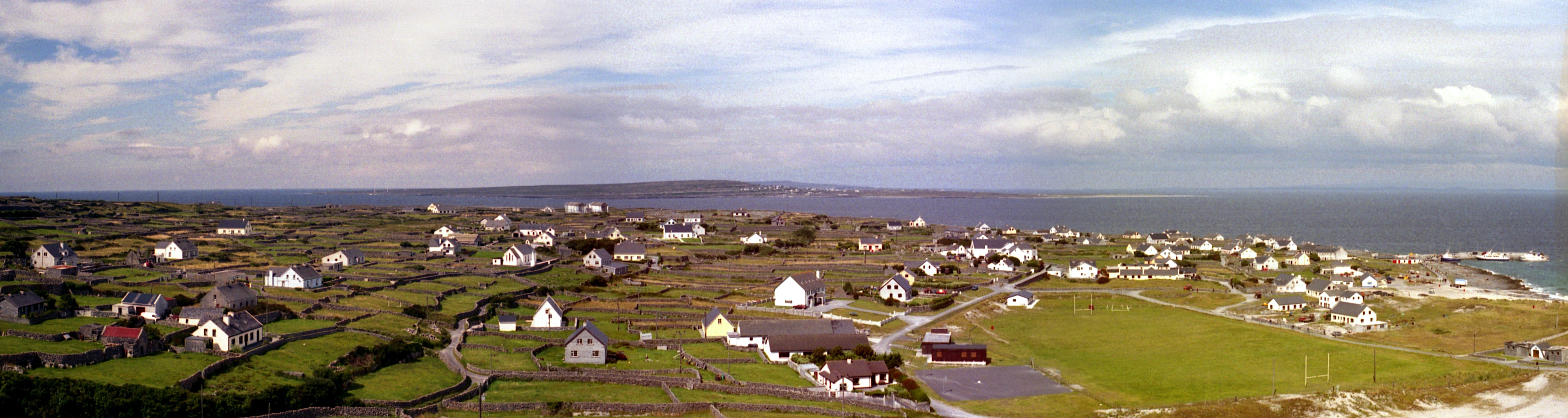 Panorama of Inishere